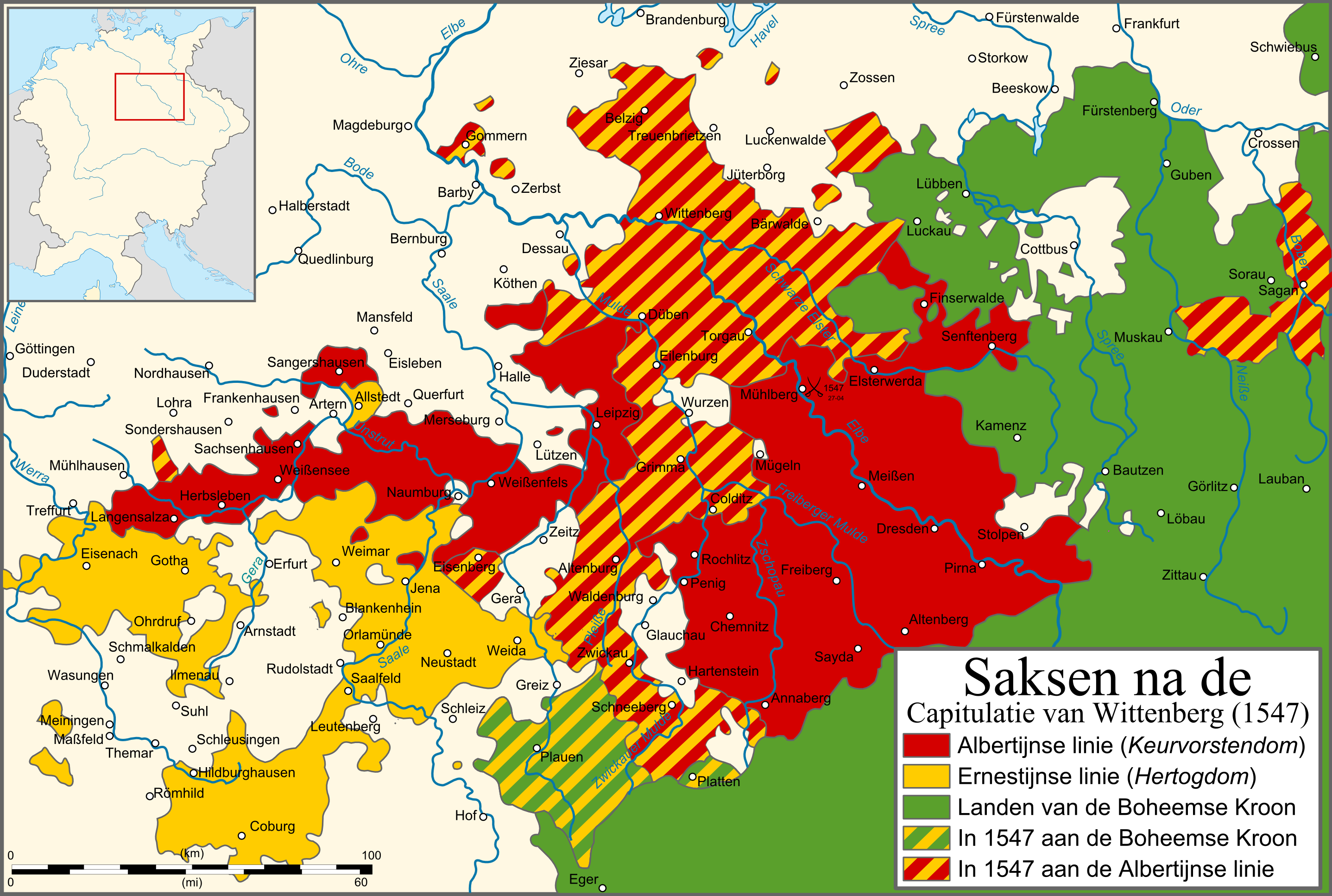 Map of Saxony after the Capitulation of Wittenberg (1547). Dutch version